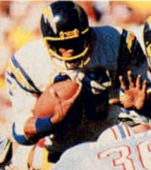 San Diego Chargers running back Lydell Mithcell rushes the ball against the Houston Oilers in the 1979 AFC Divisional Playoff Game on December 29, 1979.